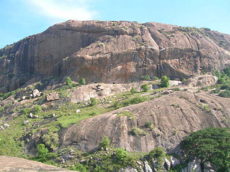 Ramdevarabetta hill. The rectangular cutout holes above the ridge at the middle are cave entrances (no real caves) made for the filming of Passage to India by David Lean.